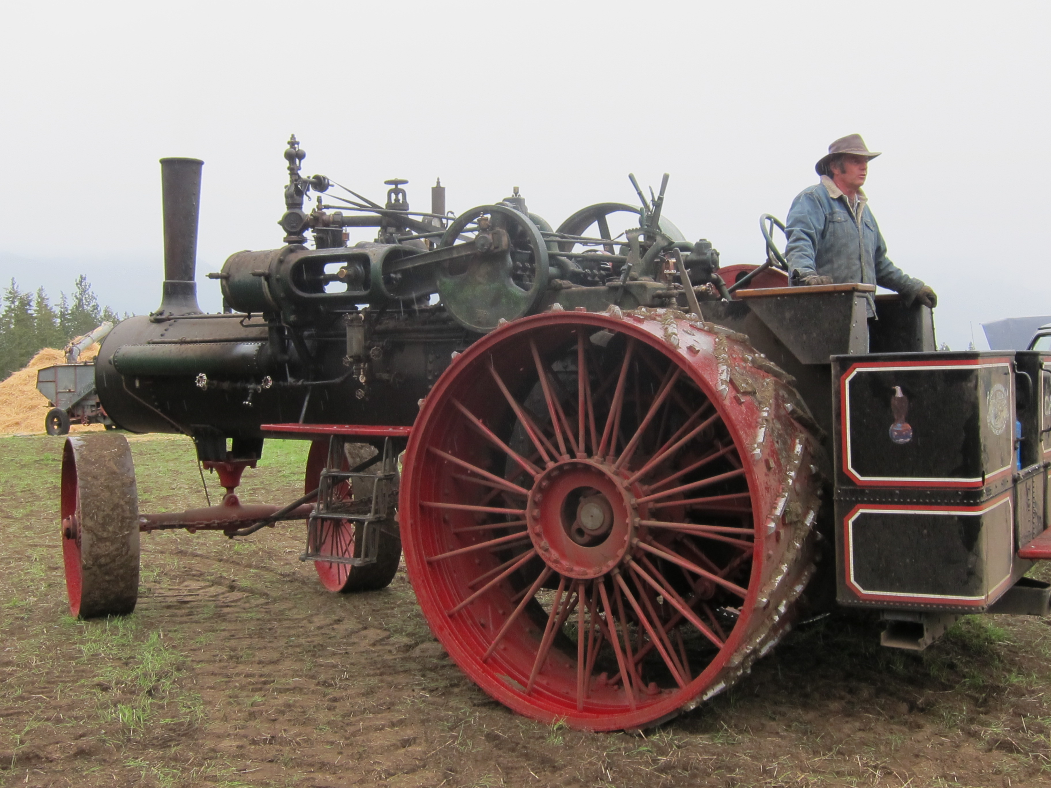 A Case steam-powered farm tractor. Armstrong, British Columbia, Canada.